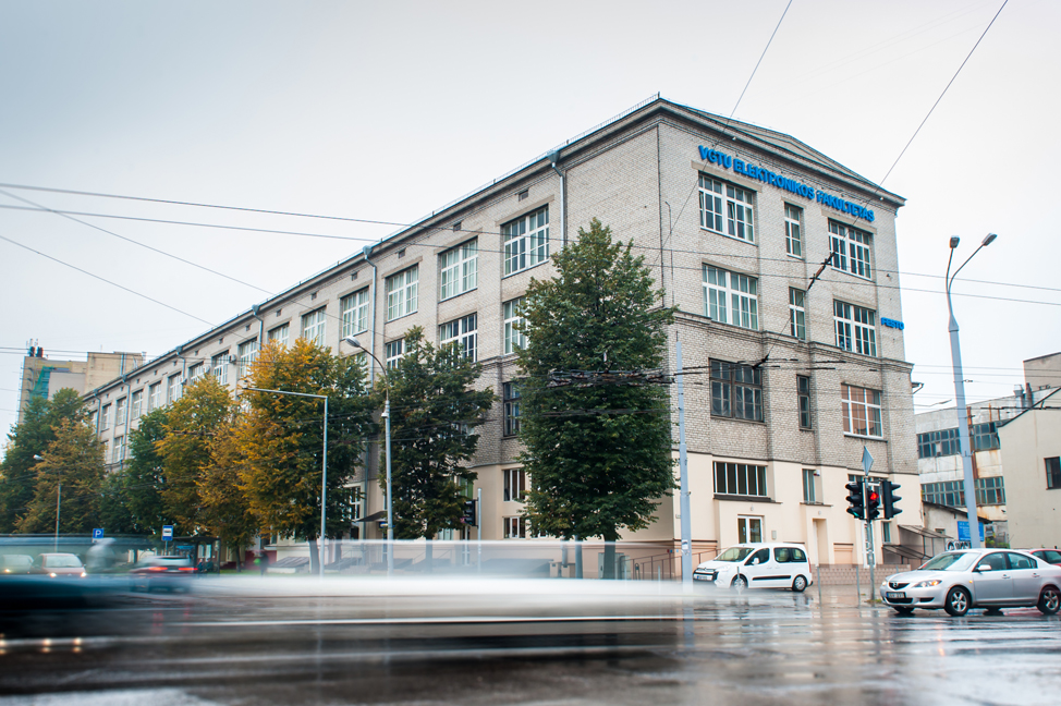 VGTU EF